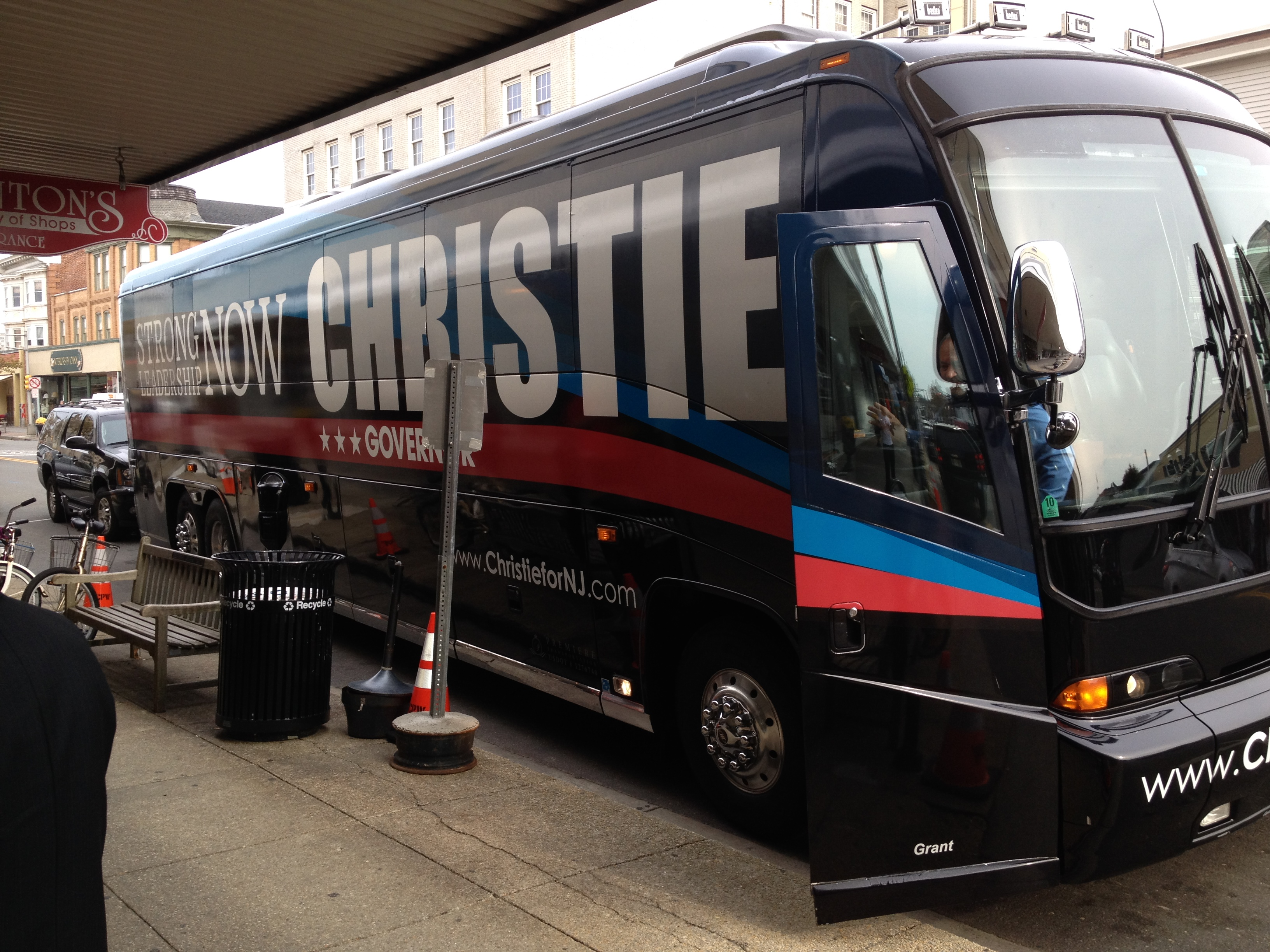 In the fall of 2013, New Jersey governor Chris Christie was running for re-election. His campaign bus, pictured here, pulls out front of Stainton Square in Ocean City, New Jersey.